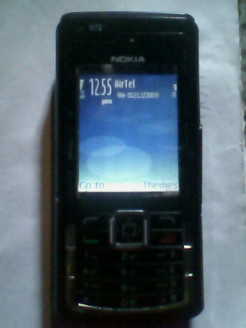 Nokia N72